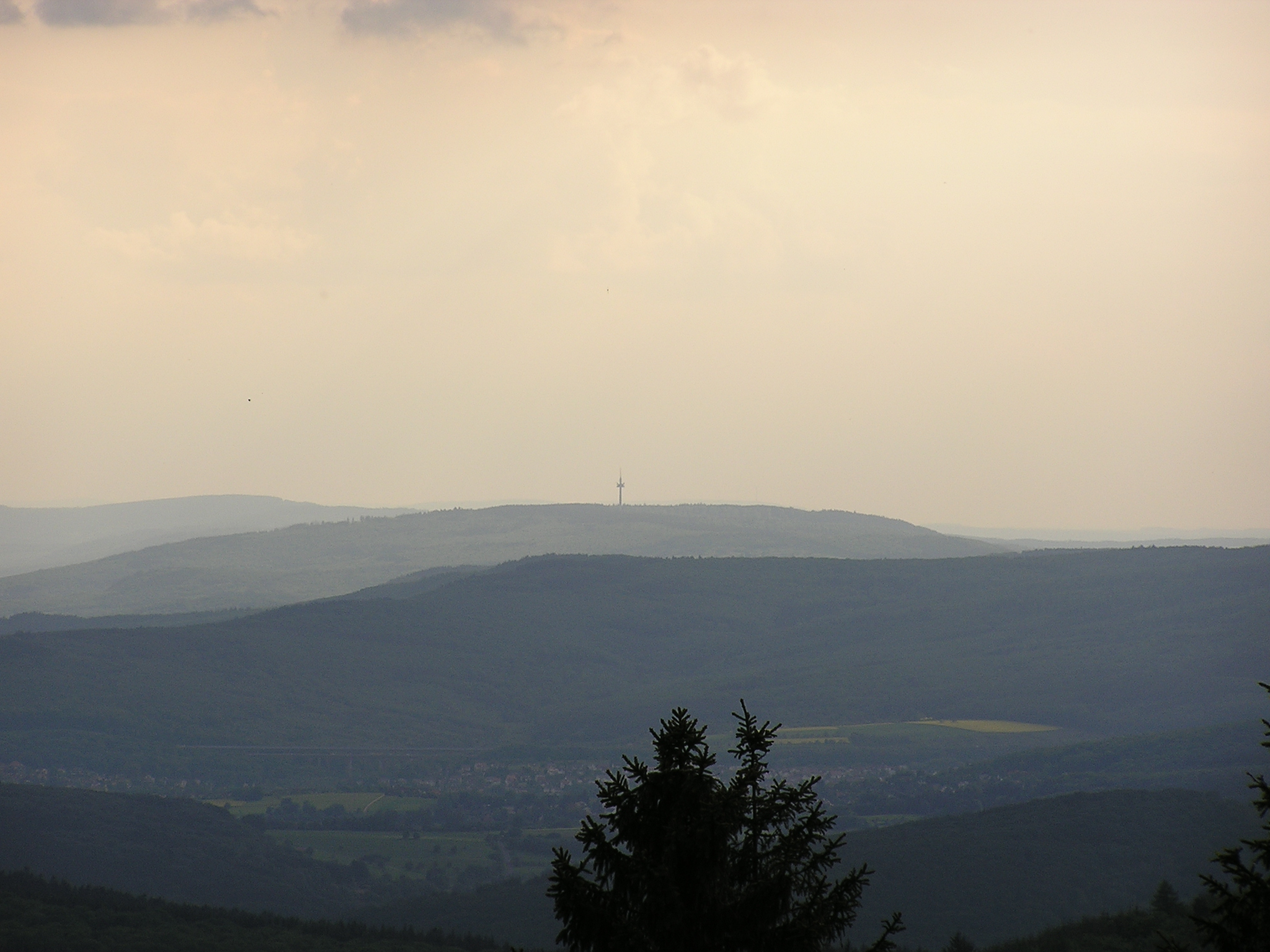 The hohe Wurzel as it can be seen from the Altkönig (both mountains are located in the Taunus)